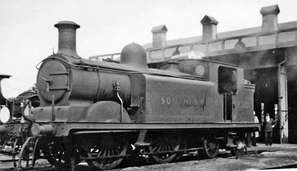 Ex-LB&SCR auto-fitted 0-4-4T at Ashford Locomotive Depot Ex-LB&SCR R. Billinton class D3/M No. 2380 was built 7/1893 and withdrawn 4/53. Ashford had a number of these for working on local branch services and they proved very unlucky with attacks by enemy aircraft during World War II - although not this particular engine.